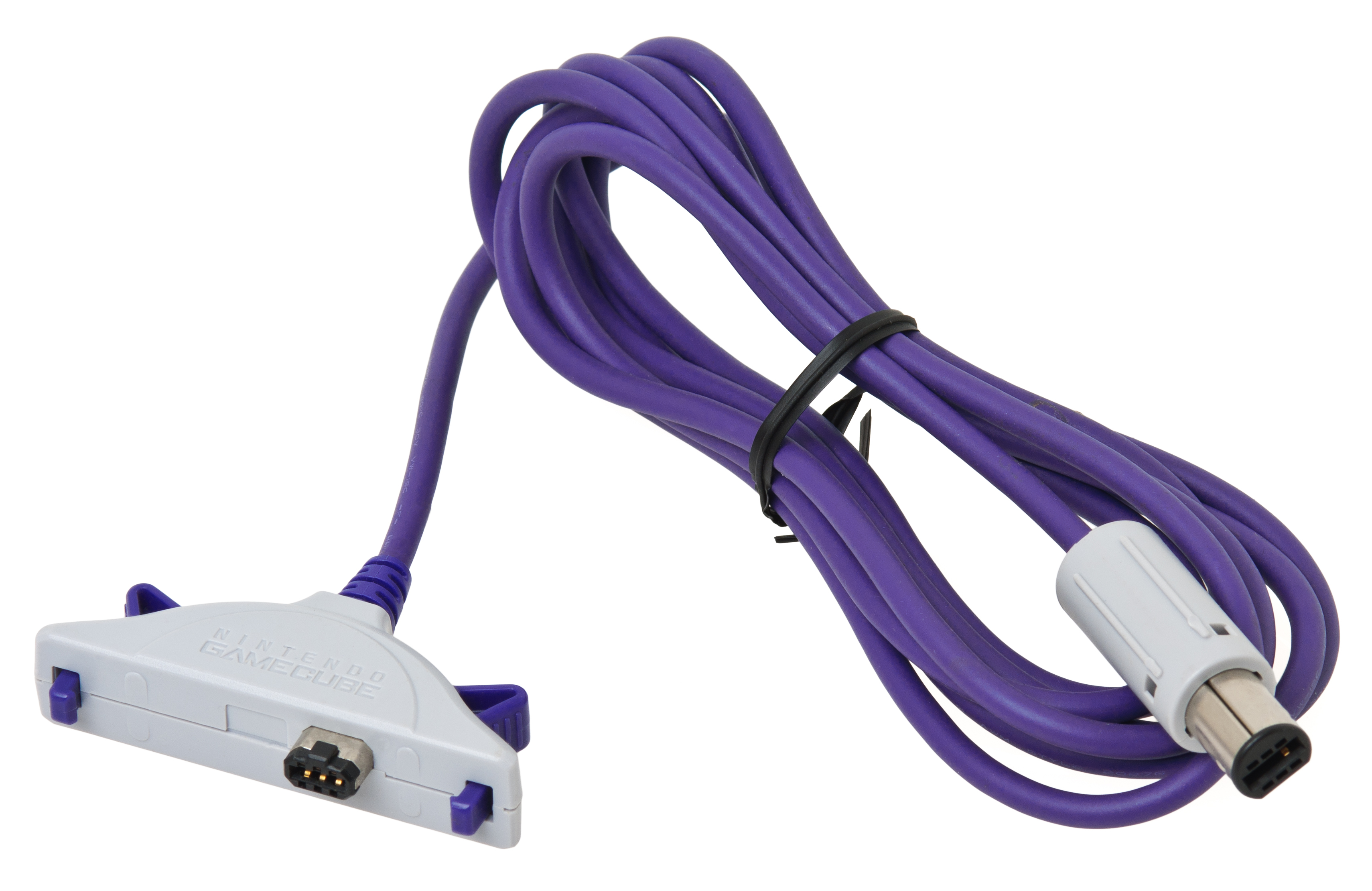 A Game Boy Advance link cable, used for connecting a GBA to the Nintendo GameCube console. Very few games actually implemented this accessory.Other version - Transparent background